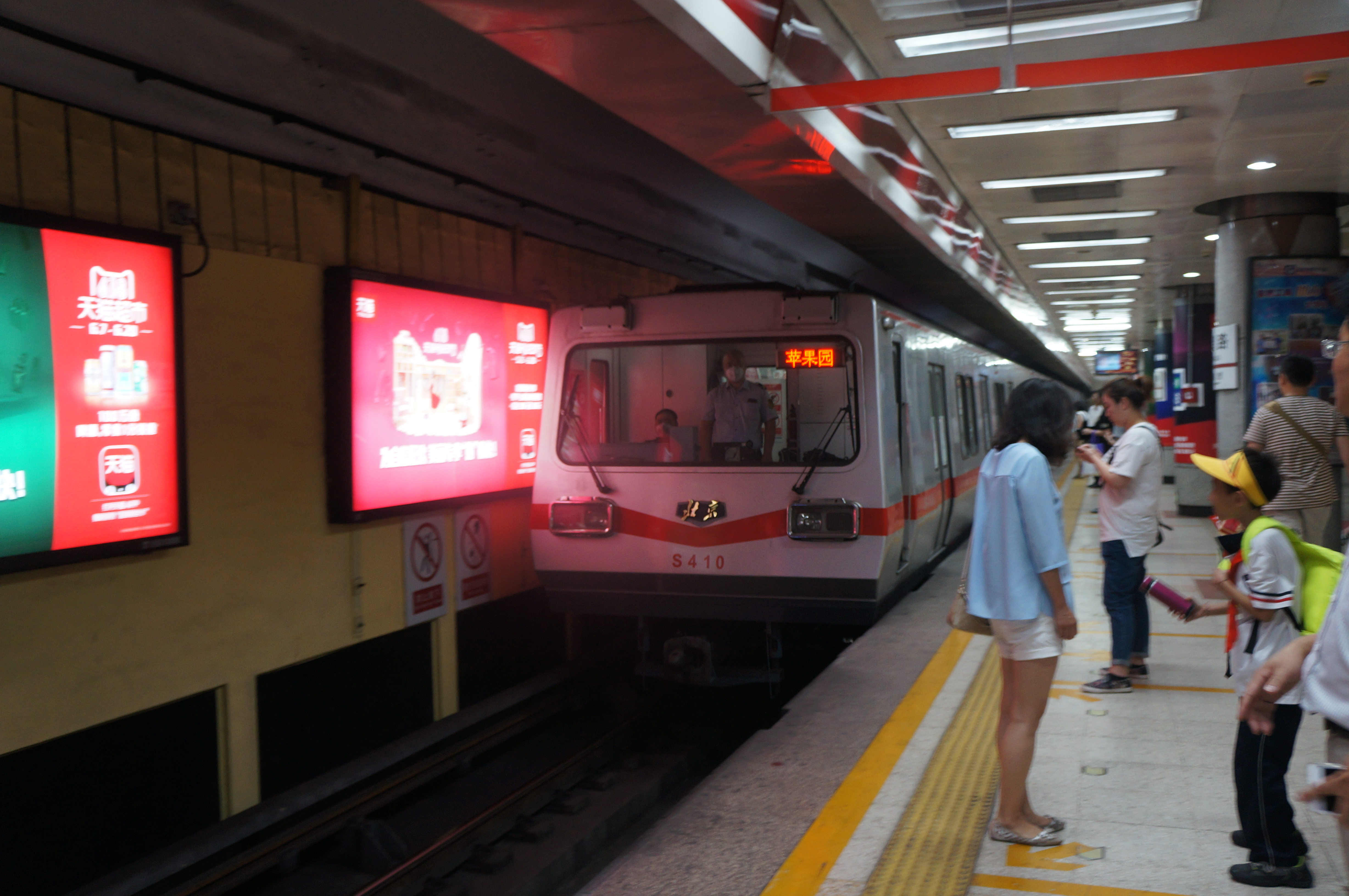 201606 DKZ4 enters into Dawanglu Station